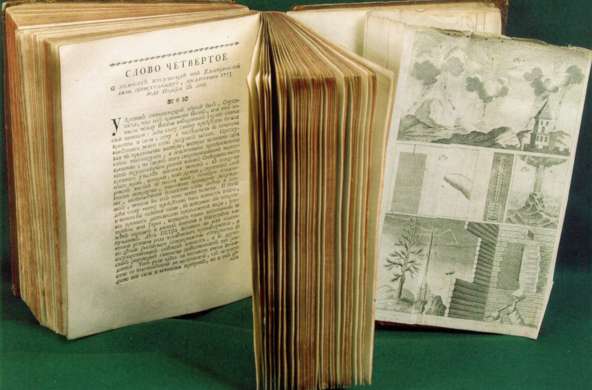 M. Lomonosov. Word about the air phenomena occurring from electrica force. 1753